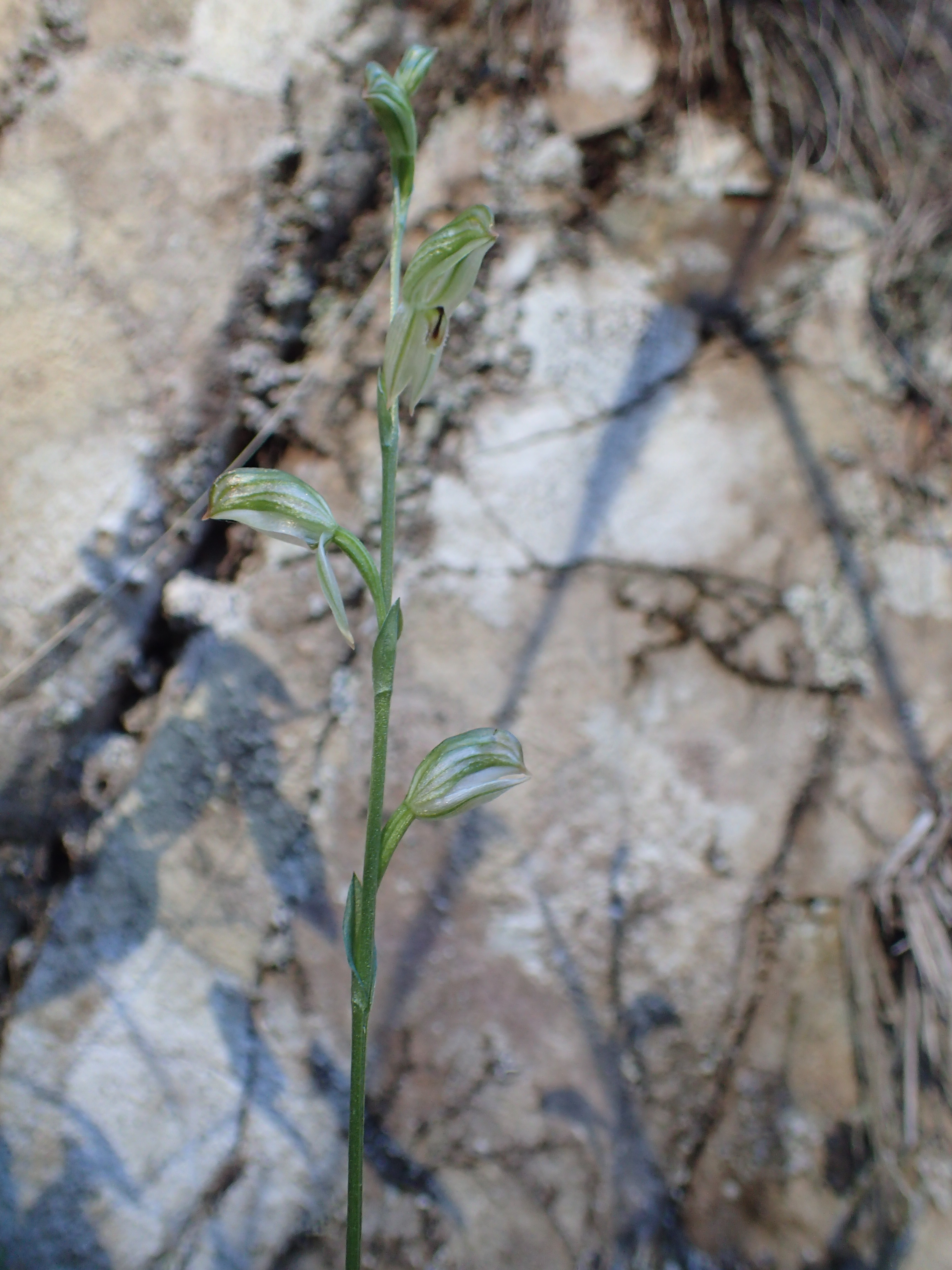 Pterostylis major growing near Craddocks Creek Trail in the Copeland Tops State Recreation Area